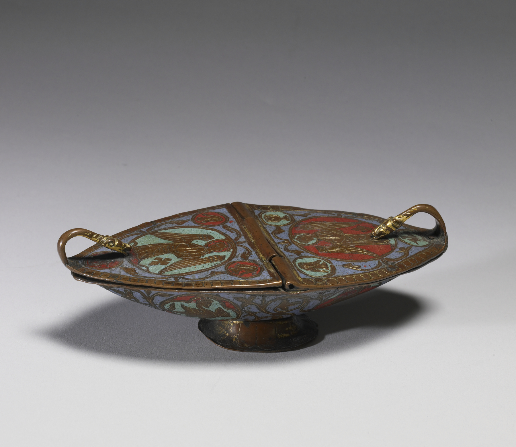 This incense boat, called a navicula (Latin for "little boat"), was used to store the incense that was burned as part of many church rituals, including the Mass. The boat has curved dragon-headed handles on the lid for the symbolic protection of the incense, a combination of frankincense and myrrh. The burning of incense was considered both an offering to God and an act of purification.